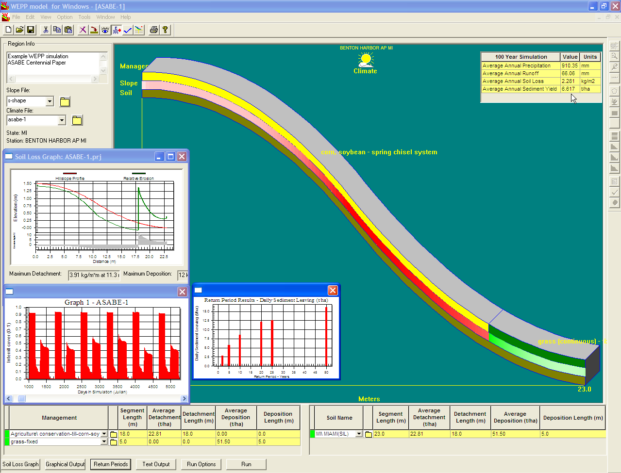 Screen capture of the WEPP (Water Erosion Prediction Project) Windows interface after completion of a 100-year hillslope simulation